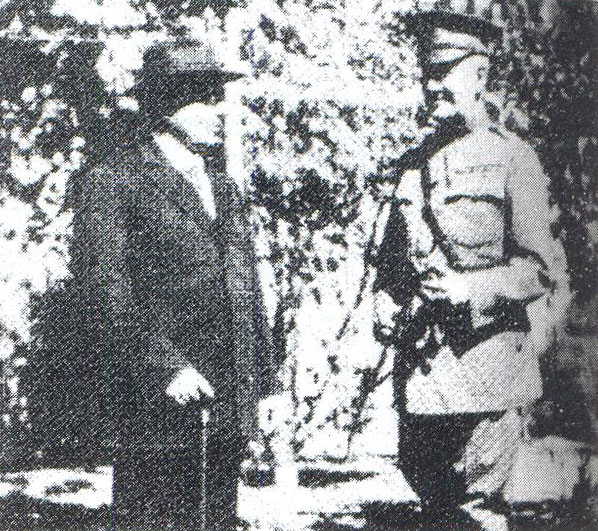 Aleksander Khatisyan, prime-minister of Republic of Armenia in 1919-1920 with US General James H. Harbord